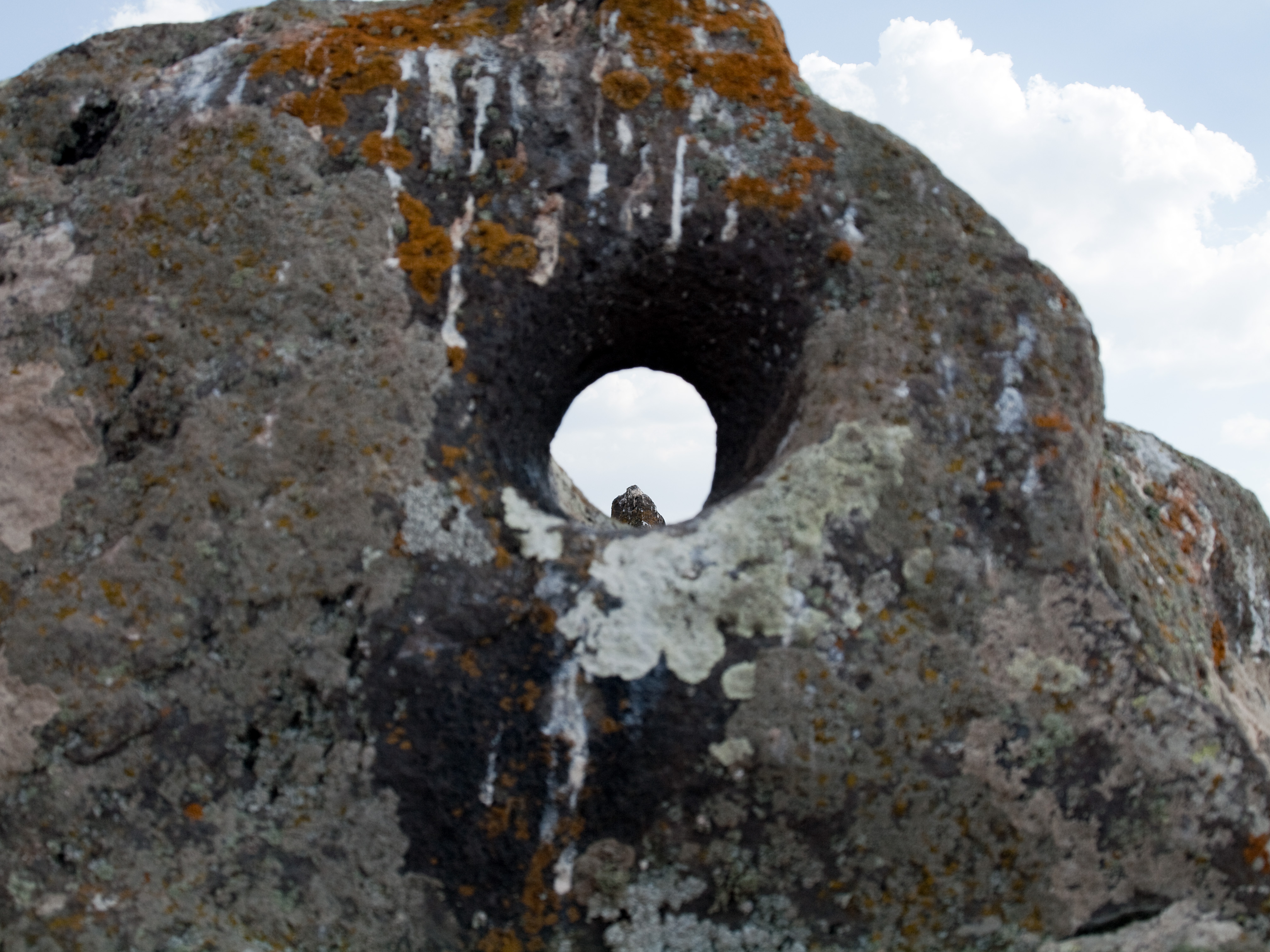 Armenia - Day 5 - 22 September 2010. An example of one of the smooth holes bored in the standing stones at the ancient Armenian archaeological site of Zorats Karer.